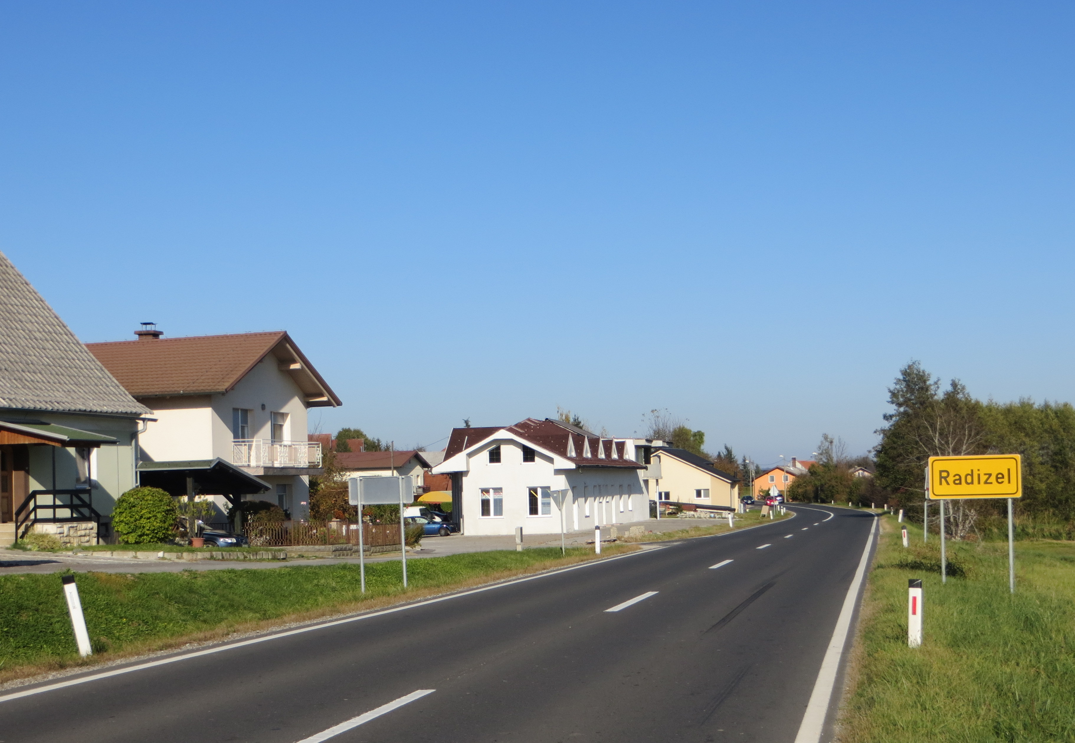 Radizel, Municipality of Hoče–Slivnica, Slovenia